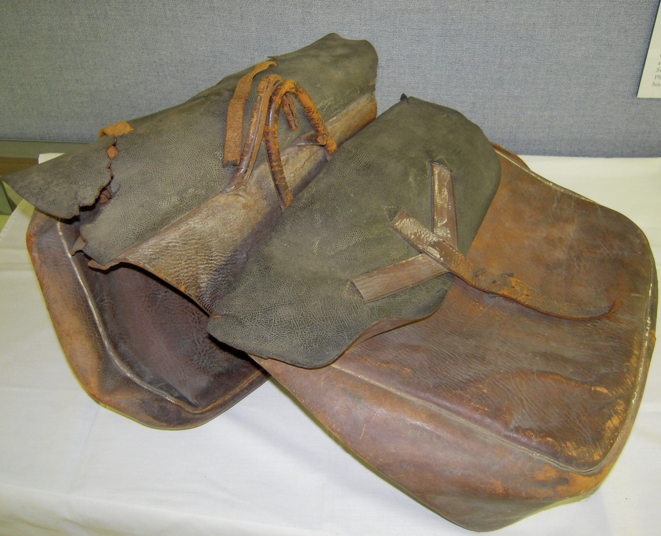 Nineteenth Century Leather saddlebags as might have been used by a Methodist circuit rider